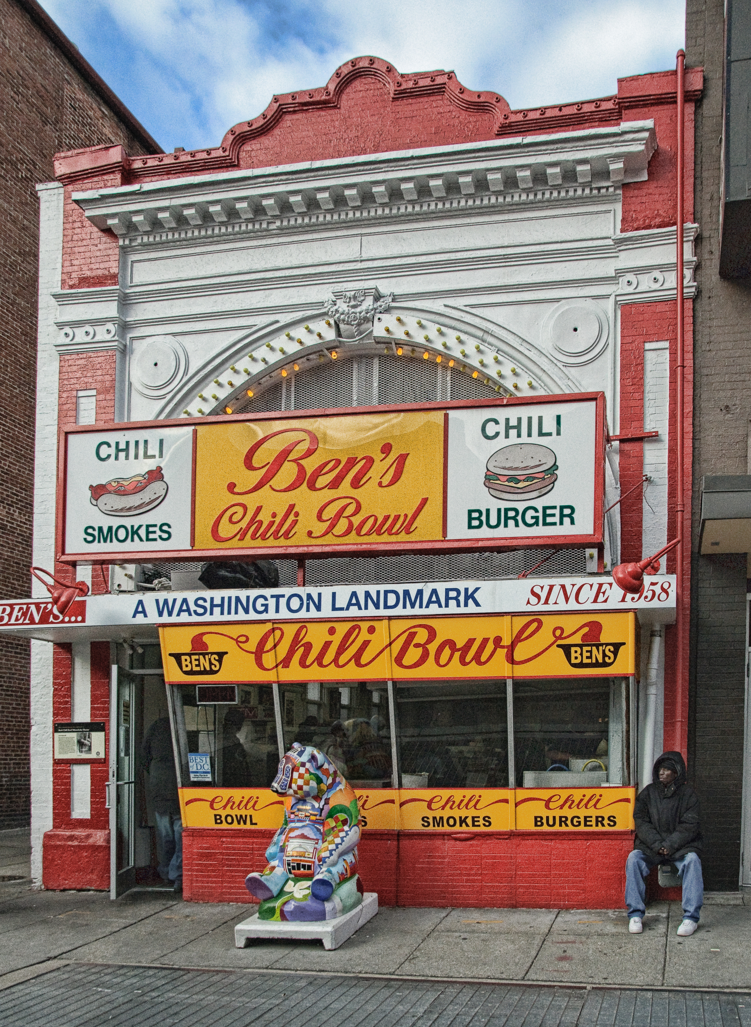 Ben's Chili Bowl, located at 1213 U Street, N.W., in Washington, D.C.